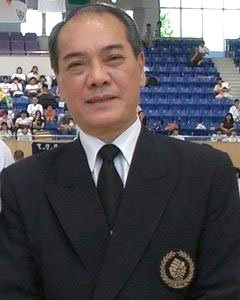 The photo taken in Himeji Budokan (Japan), is property of Achiam's family, holder of all rights